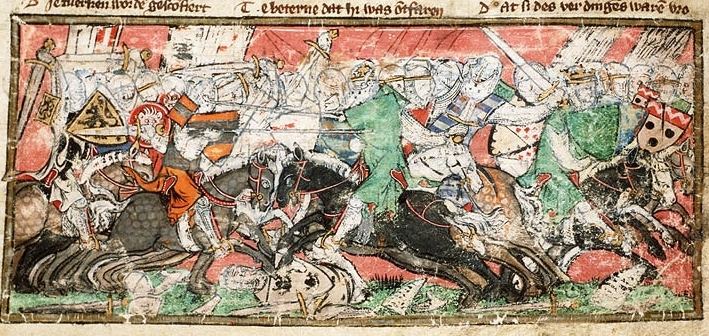 Battle between the Turks and the Crusaders